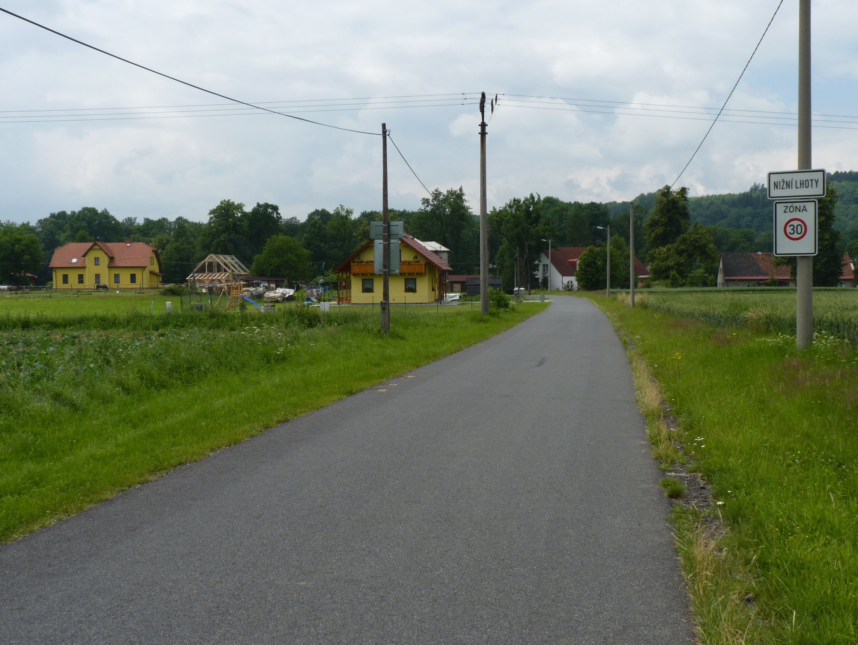 Nižní Lhoty. Frýdek-Místek District, Moravian-Silesian Region, Czech Republic